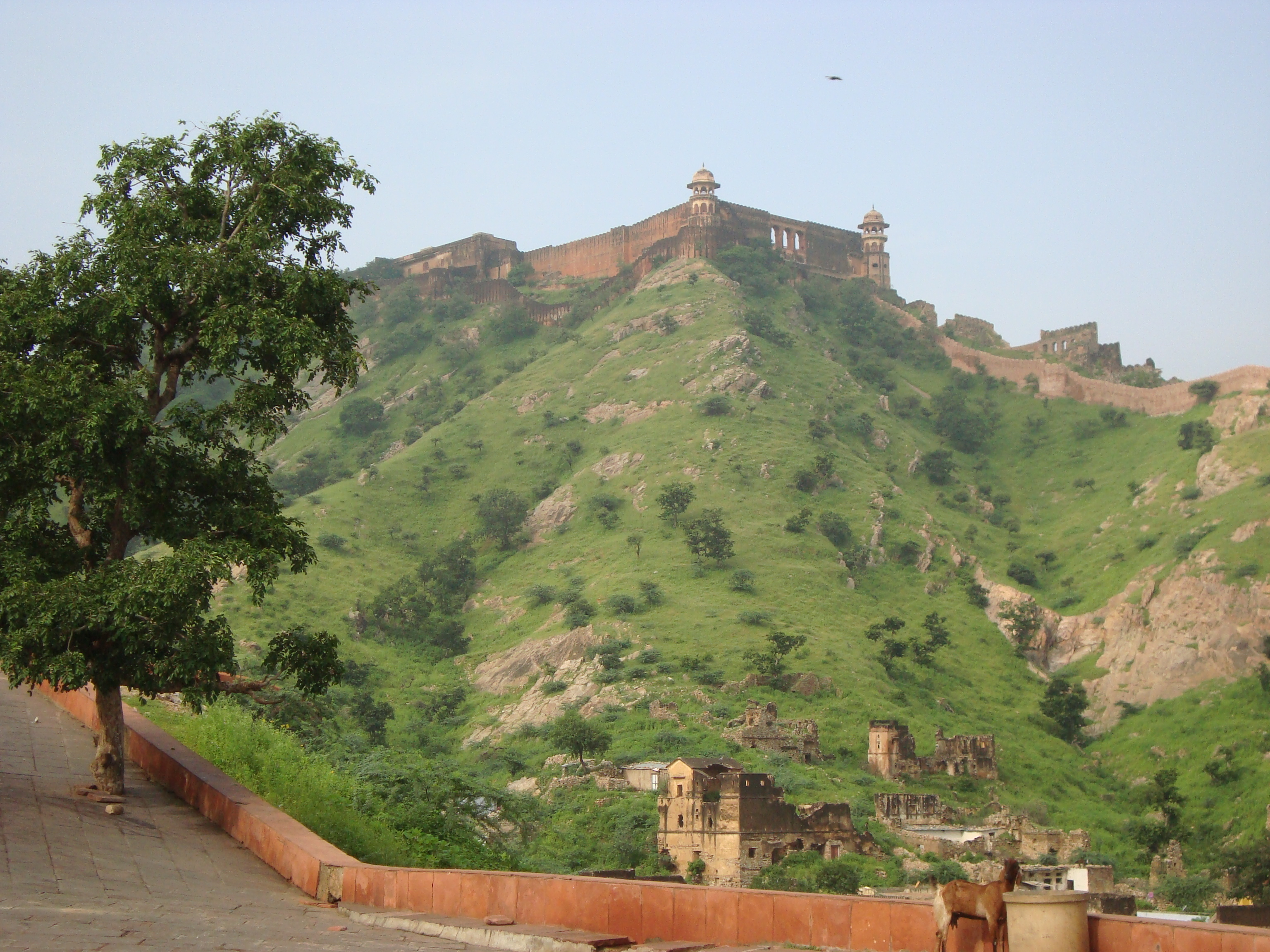 View of Jaigarh Fort as seen from Amber Fort